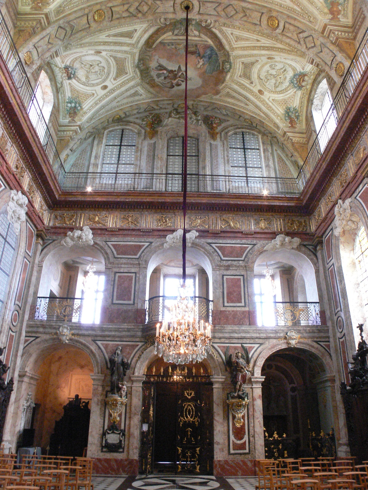 Bonsecours church in Nancy, Lorraine, France